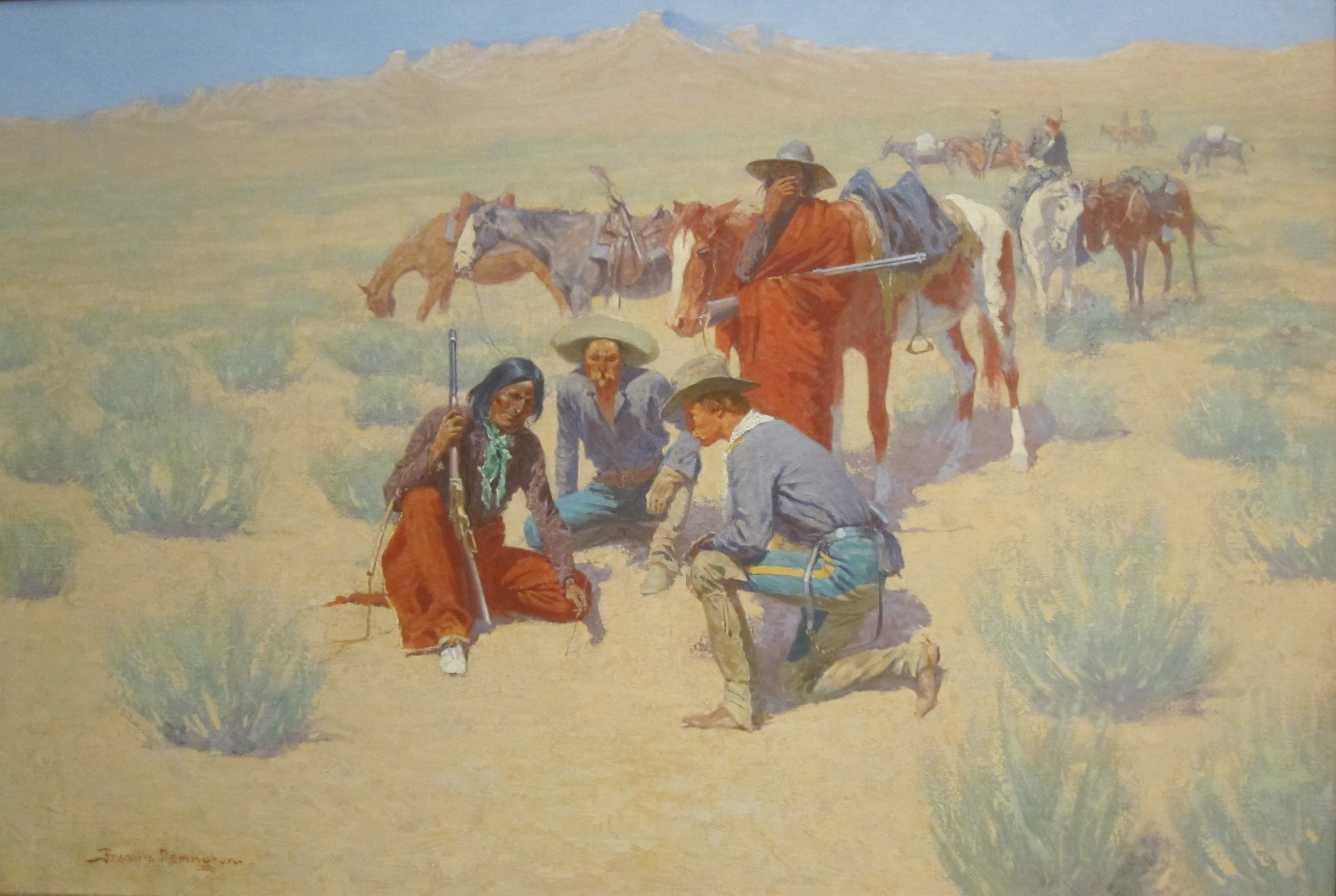 A Map in the Sand